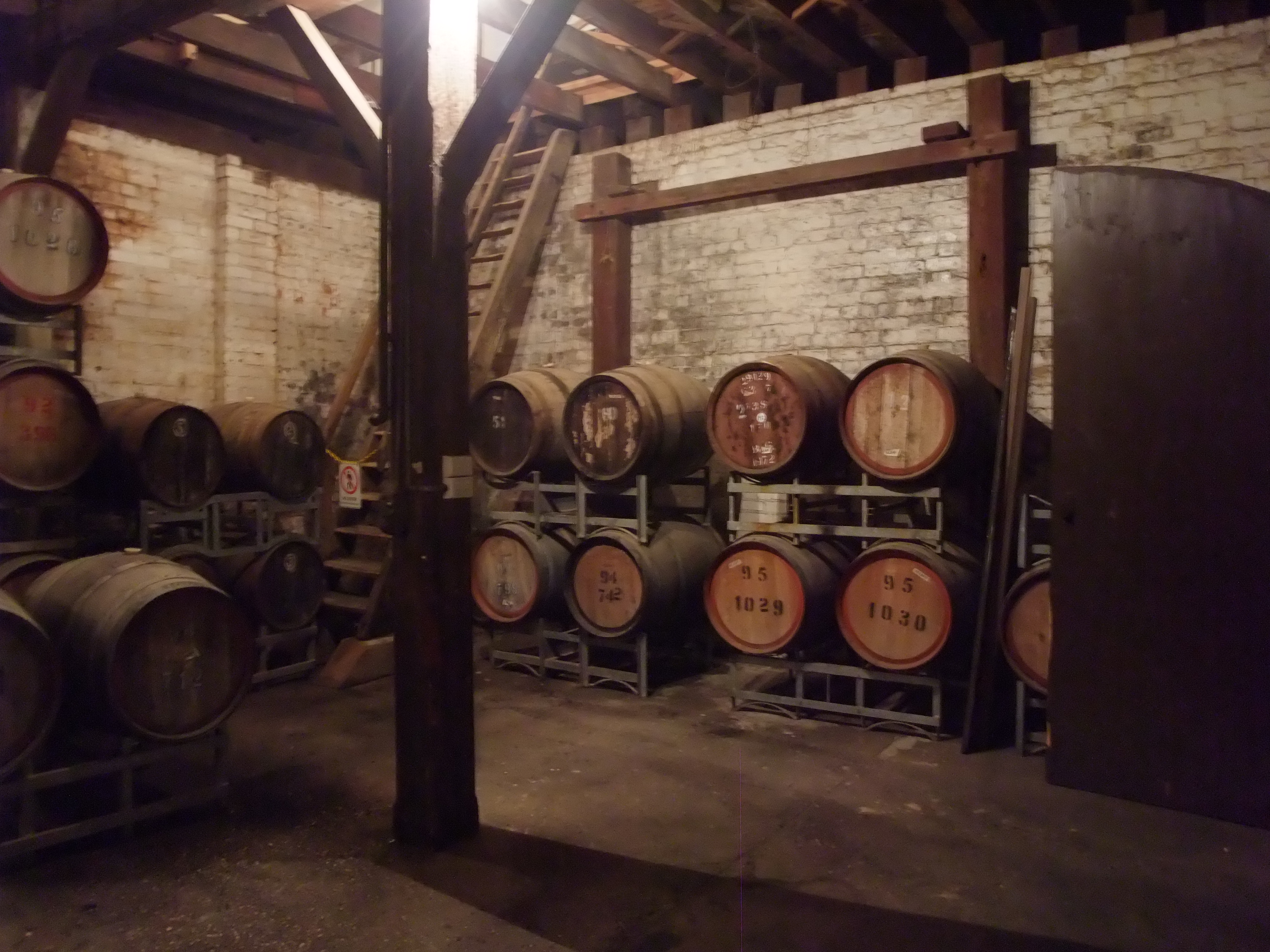 An example of a small garage style winery.